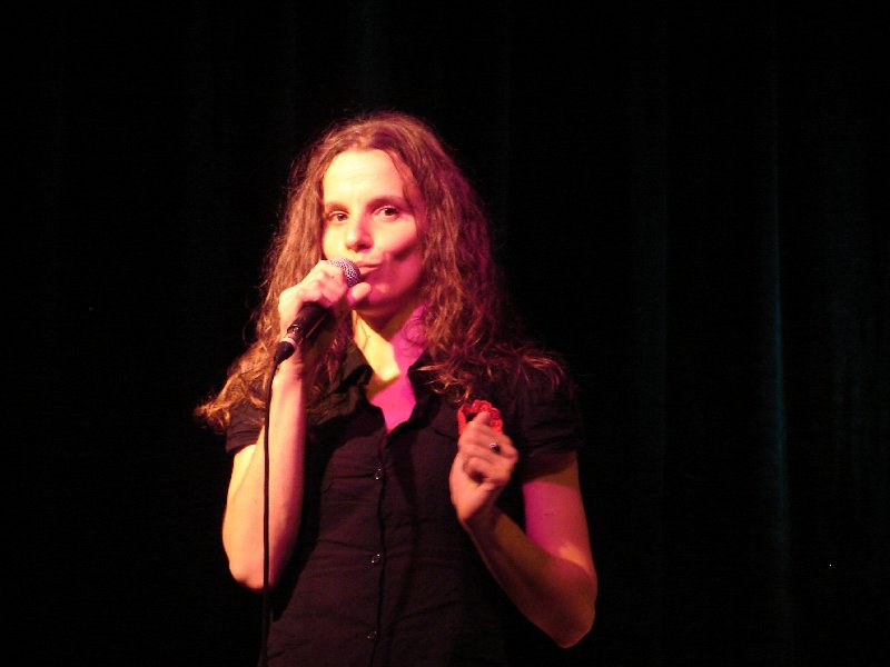 Photo taken at the concert Clarisse Lavanant at Clairvaux les Lacs, Jura, France